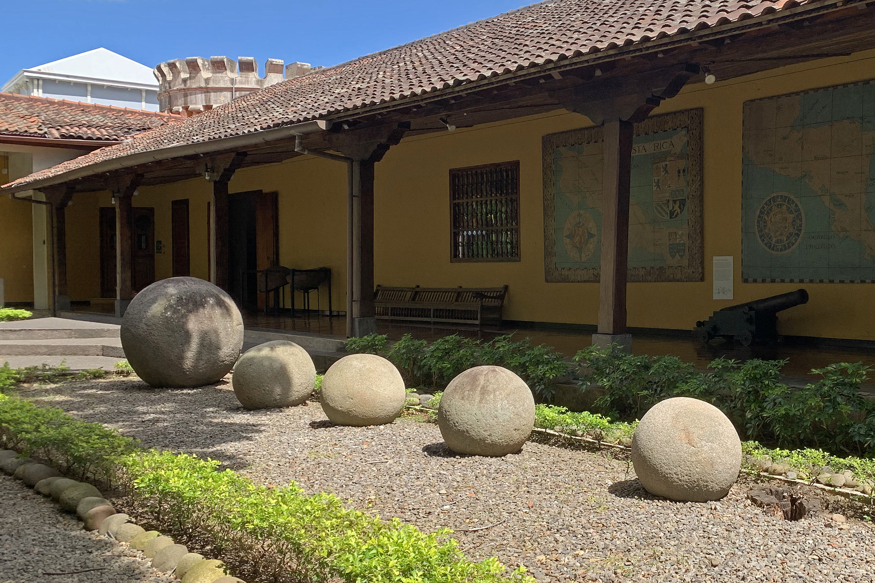 Alignment of six stone spheres of the Diquís of several sizes on display in the main courtyard of the Museo Nacional de Costa Rica, San José.